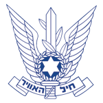 Coat of Arms of the Israeli Air Force